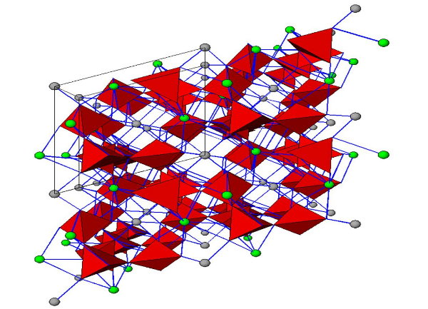 Crystal structure of Ronneburgite. Red: VO4-Tetrahedrons, grey: Mn, green: K (drawn with program ATOMS). View in b-direction.